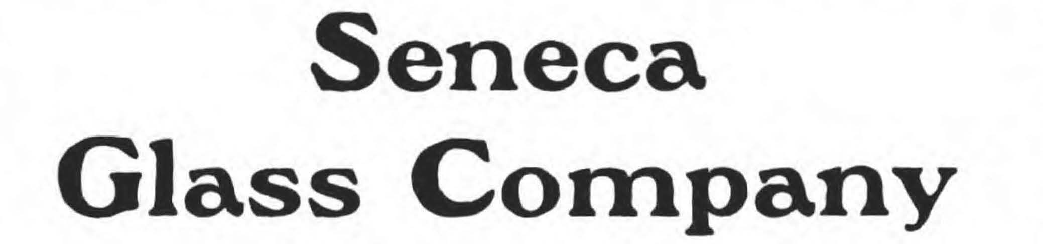 Seneca Glass Company logo from advertisement in 1905 Glass and Pottery World magazine. Plant was located in Morgantown, West Virginia, USA.